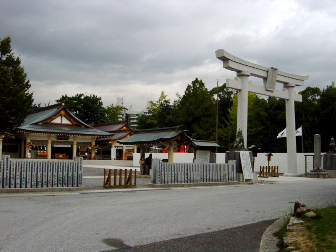 Hiroshima Gokoku Shrine From jp.wikipedia